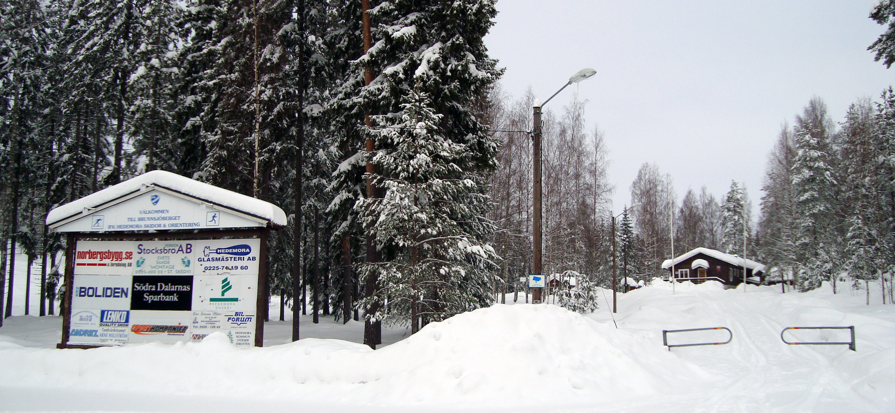 Ski and recreation facility Brunnsjöberget, Hedemora, Sweden